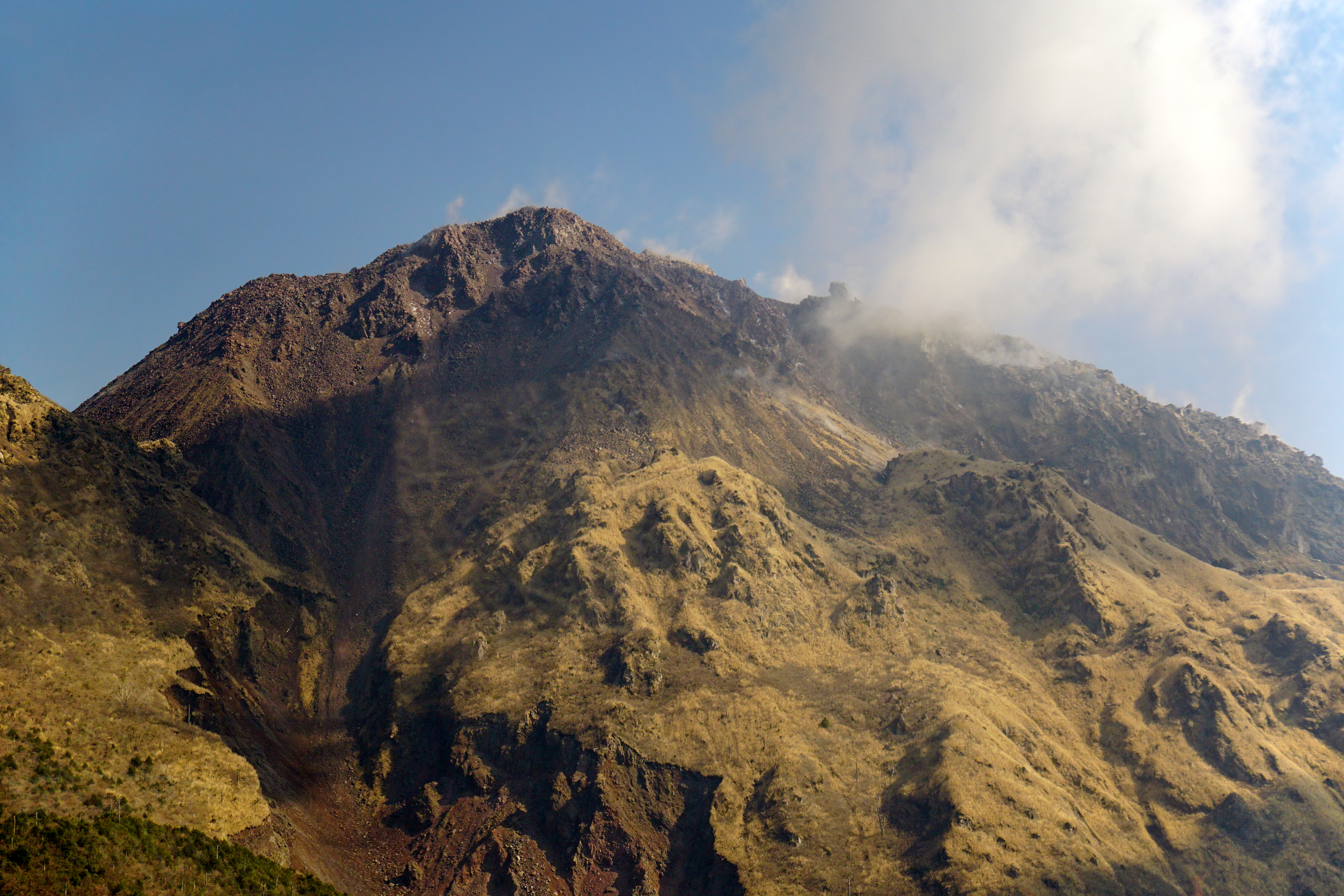 Mount Heisei-shinzan is part of Unzen volcanic complex at Unzen City, Nagasaki prefecture, Japan.